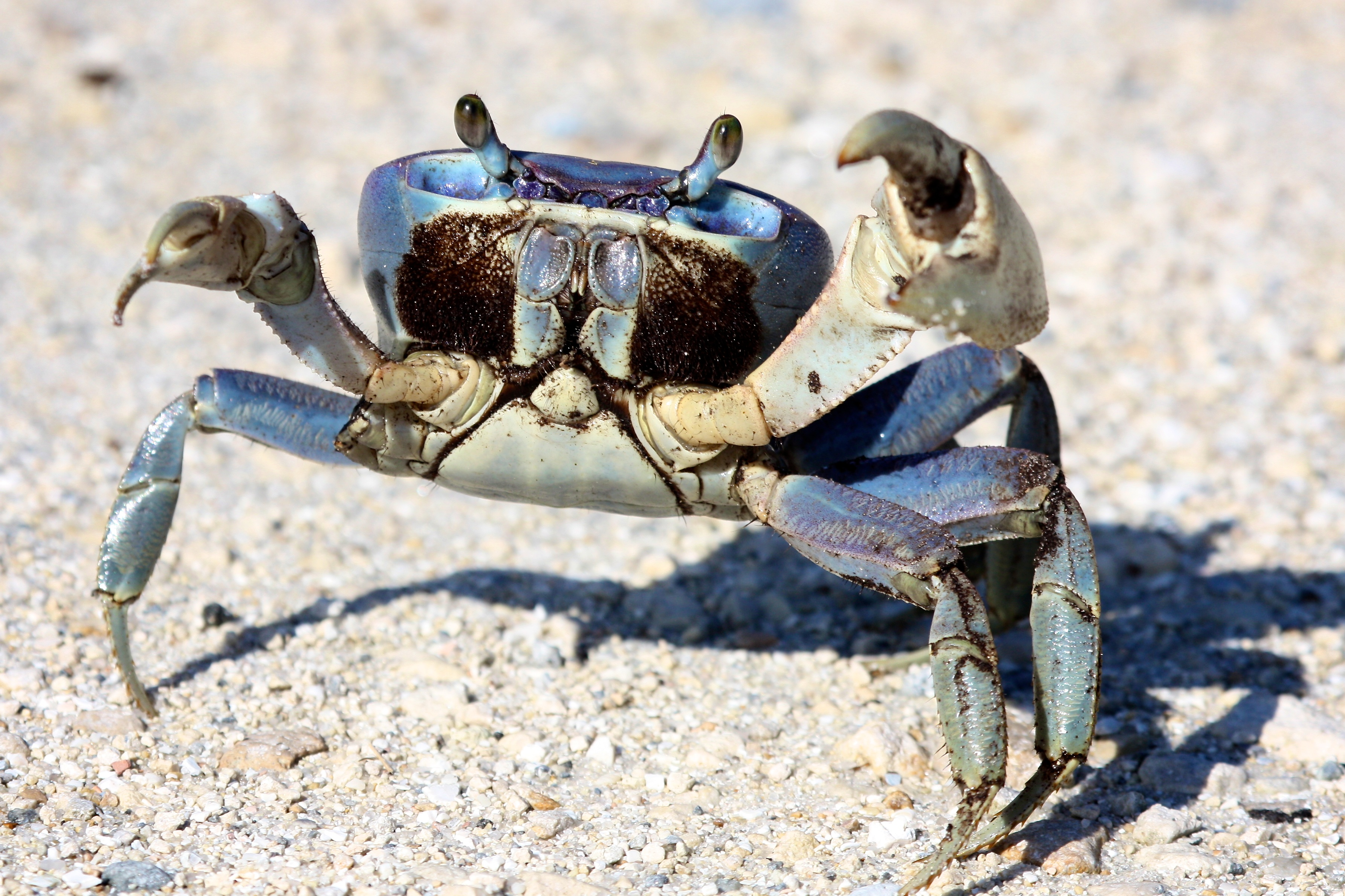 Blue Land Crab (Cardisoma guanhumi) at Pelican Island National Wildlife Refuge Credit: Keenan Adams (USFWS)